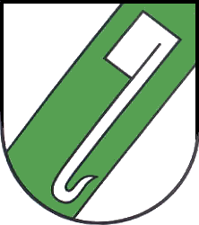 Coat of Arms of Grasleben First upload in de-wp: Schnäpel (17:20, 24. Nov. 2006 - Bild:Graslebe.jpg)